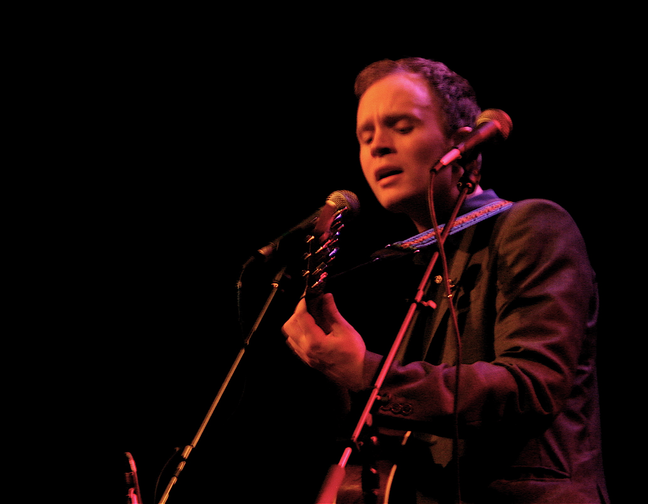 Jens Lekman at Music Hall of Williamsburg, Brooklyn, NY - October 28, 2007.